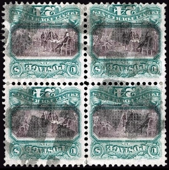 1869 24¢ United States stamps with inverted centre